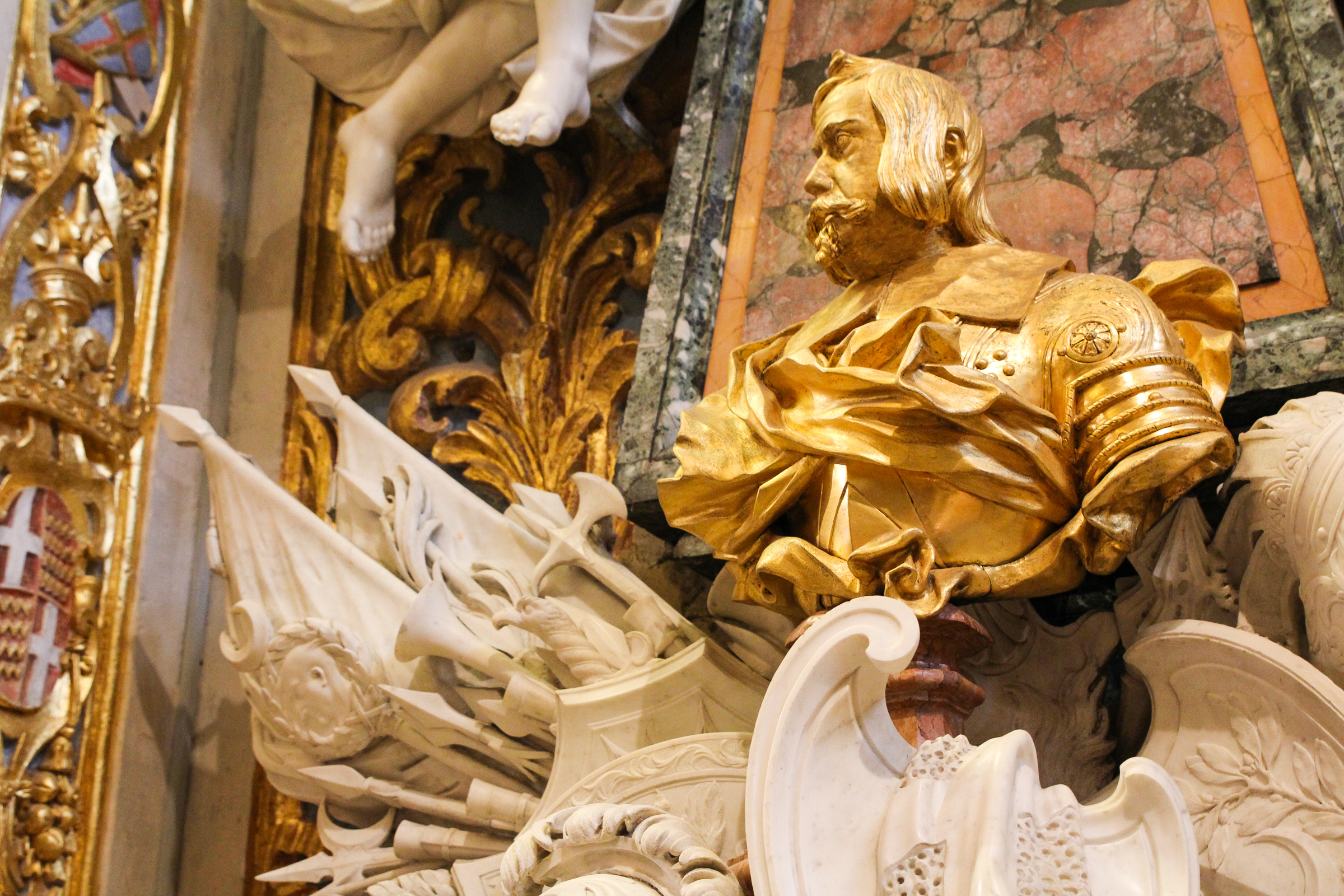 Bust of Grand Master Nicolas Cottoner, St John's Co Cathedral, Valletta, Malta